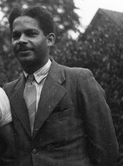 Boy Ecury.